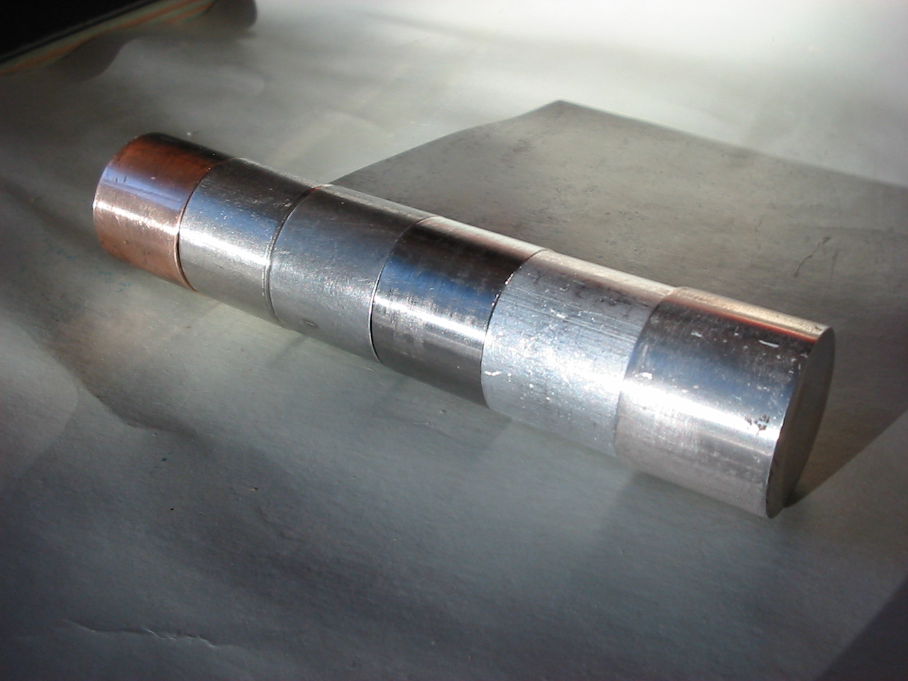 1.25" diameter X 1 inch thick. From left, beryllium copper (mostly copper) good for springs & no-spark tools Inconel, a nickel-copper alloy (mostly nickel) high strength at high temperatures. Steel. Iron + carbon, but not too much. Titanium. Talk about hard! I killed 2 files taking saw marks off my first Ti sample. Aluminum. Not as hard, lighter, softer Magnesium. Really light. Really soft. Some hard Italian cheeses are harder, I'd swear it. IMG_5988